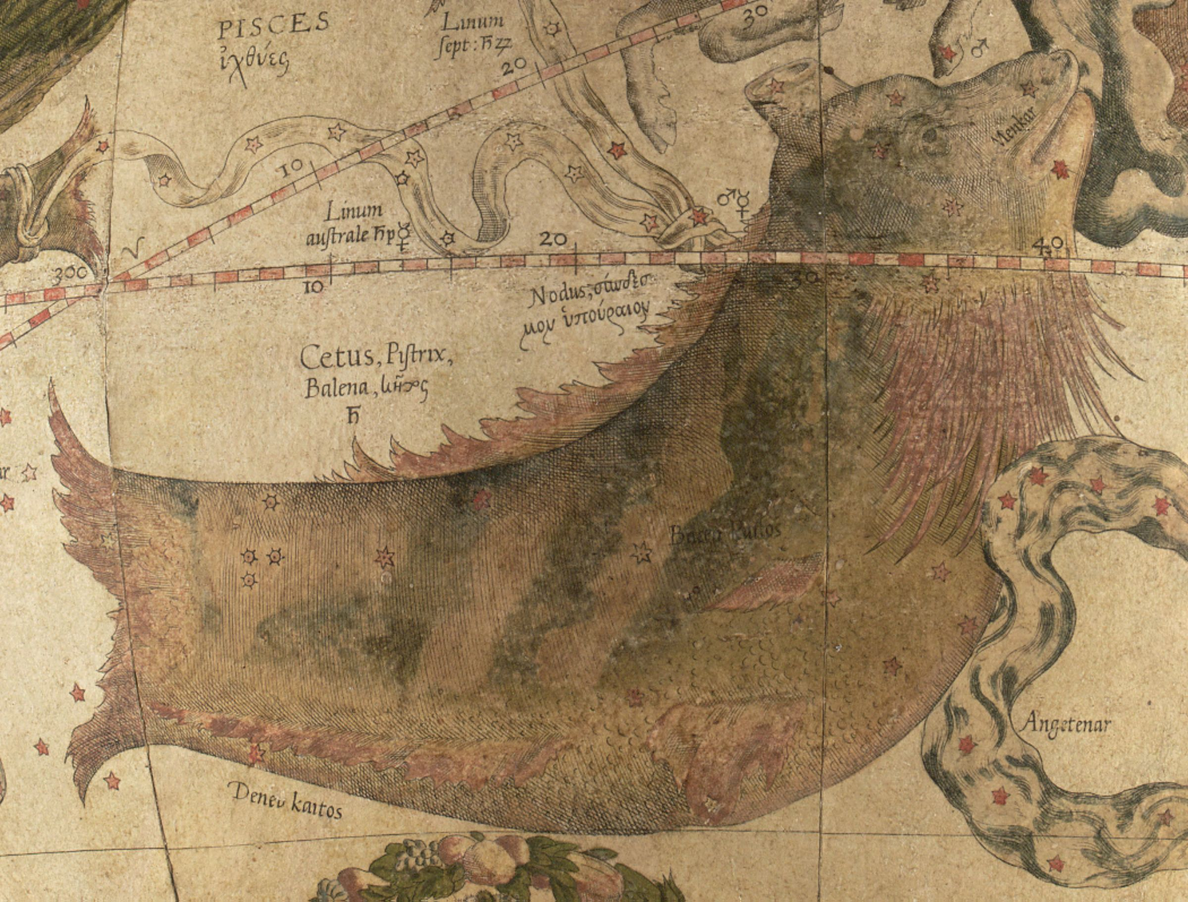 Cetus constellation from the Mercator celestial globe.